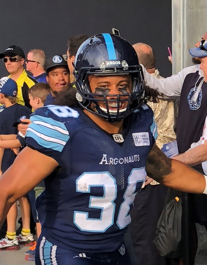 Declan Cross, Fullback for the Toronto Argonauts.